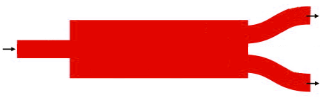 A Multi Mode Interferometer (MMI) is a specialized optical device for splitting light. Published research papers about MMIs can be found in journals of optics and photonics.